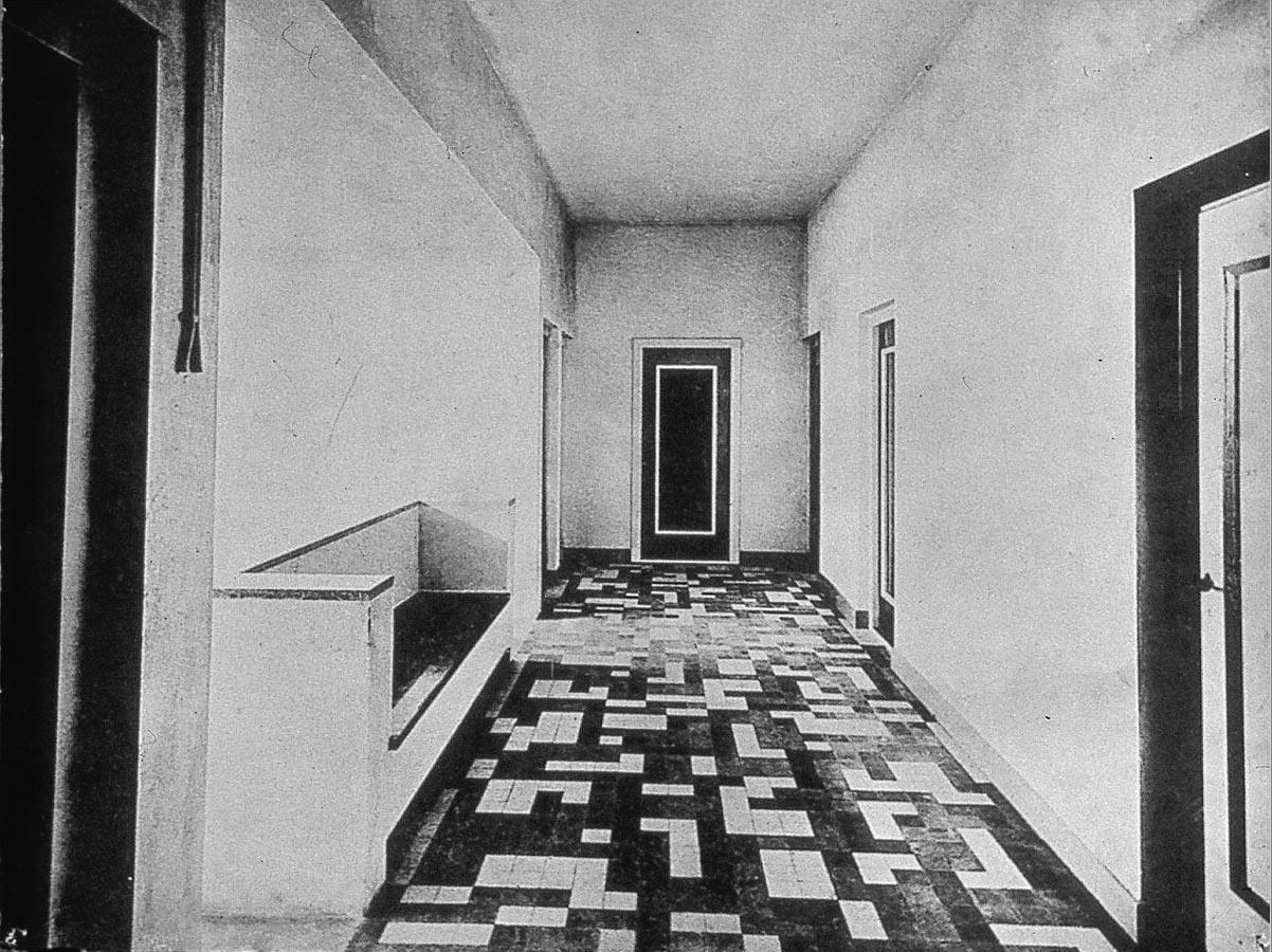 Theo van Doesburg. Landing of 'De Vonk', Noordwijkerhout. c 1918. Photo. 38 × 48.5 cm. Instituut Collectie Nederland.